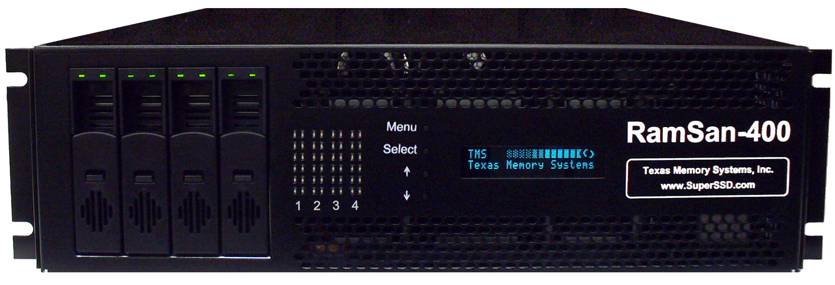 \SCUSI